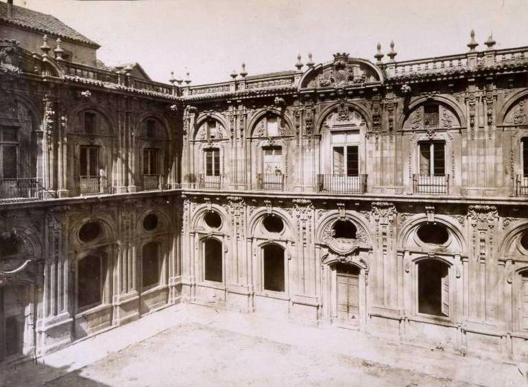 Claustro del convento de Santo Tomás de Aquino, Madrid.